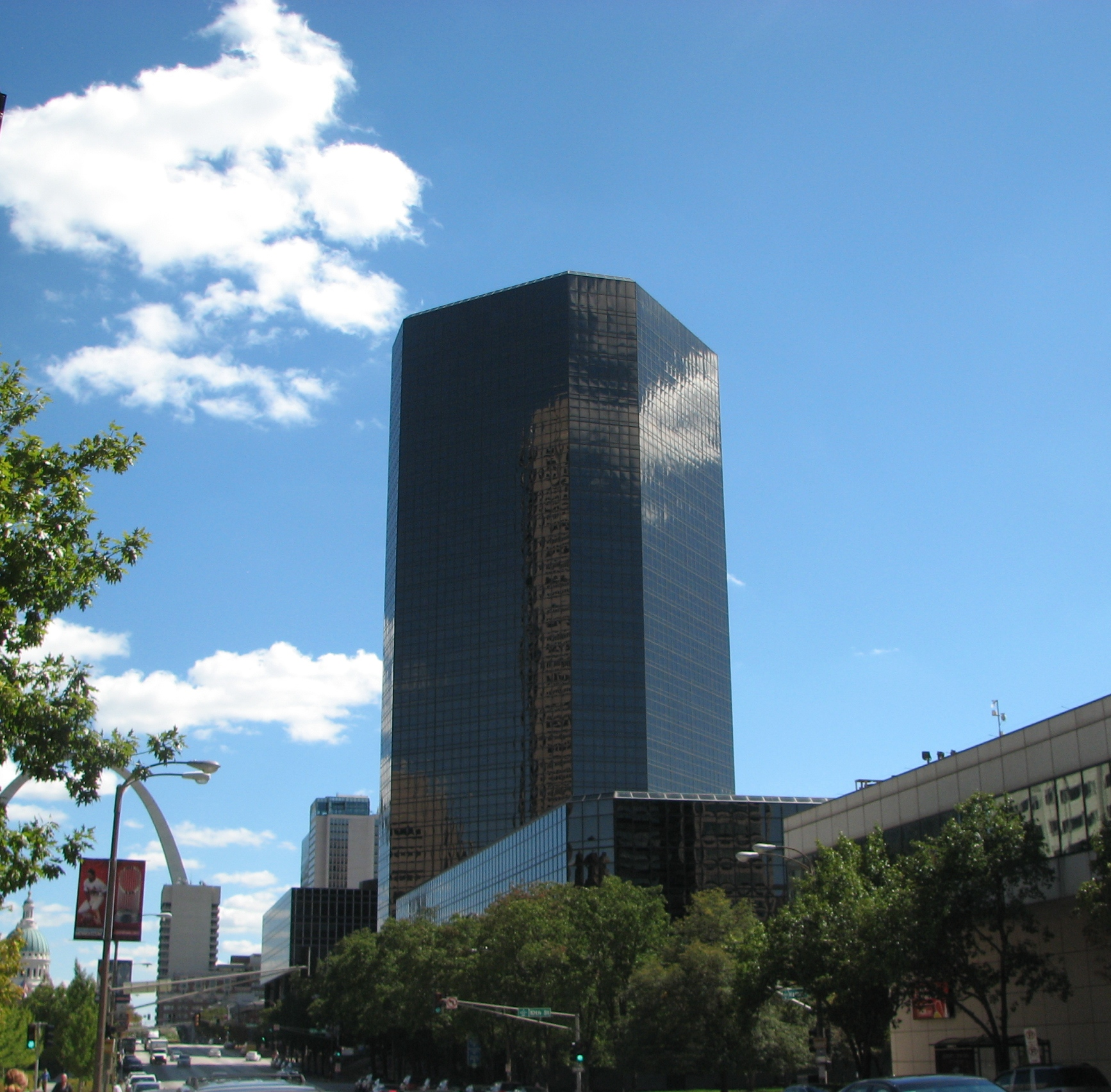 Photo of Bank of America facing east.